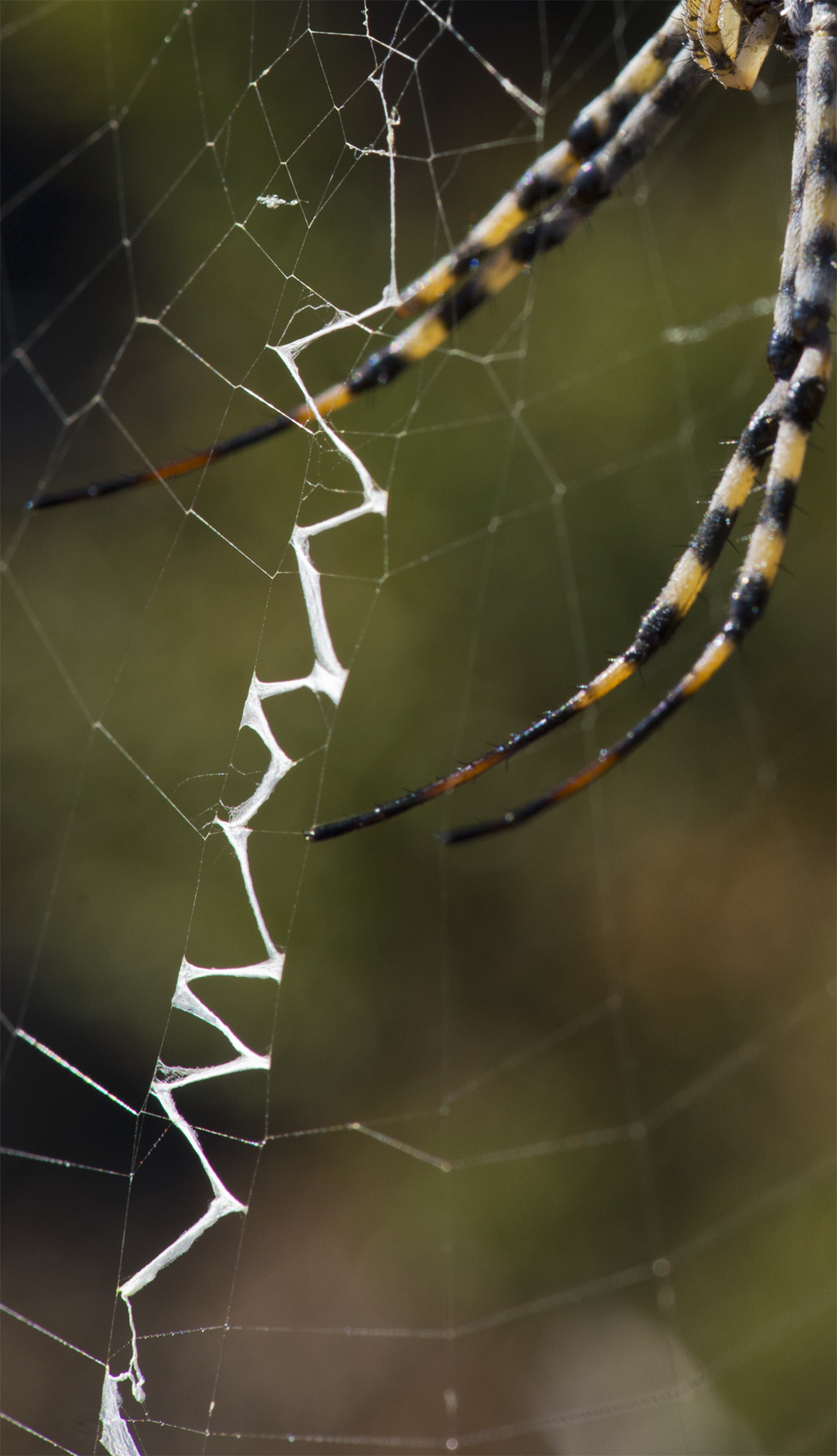 Detail of the stabilimentum in the web of an Argiope lobata, Conil, Spain